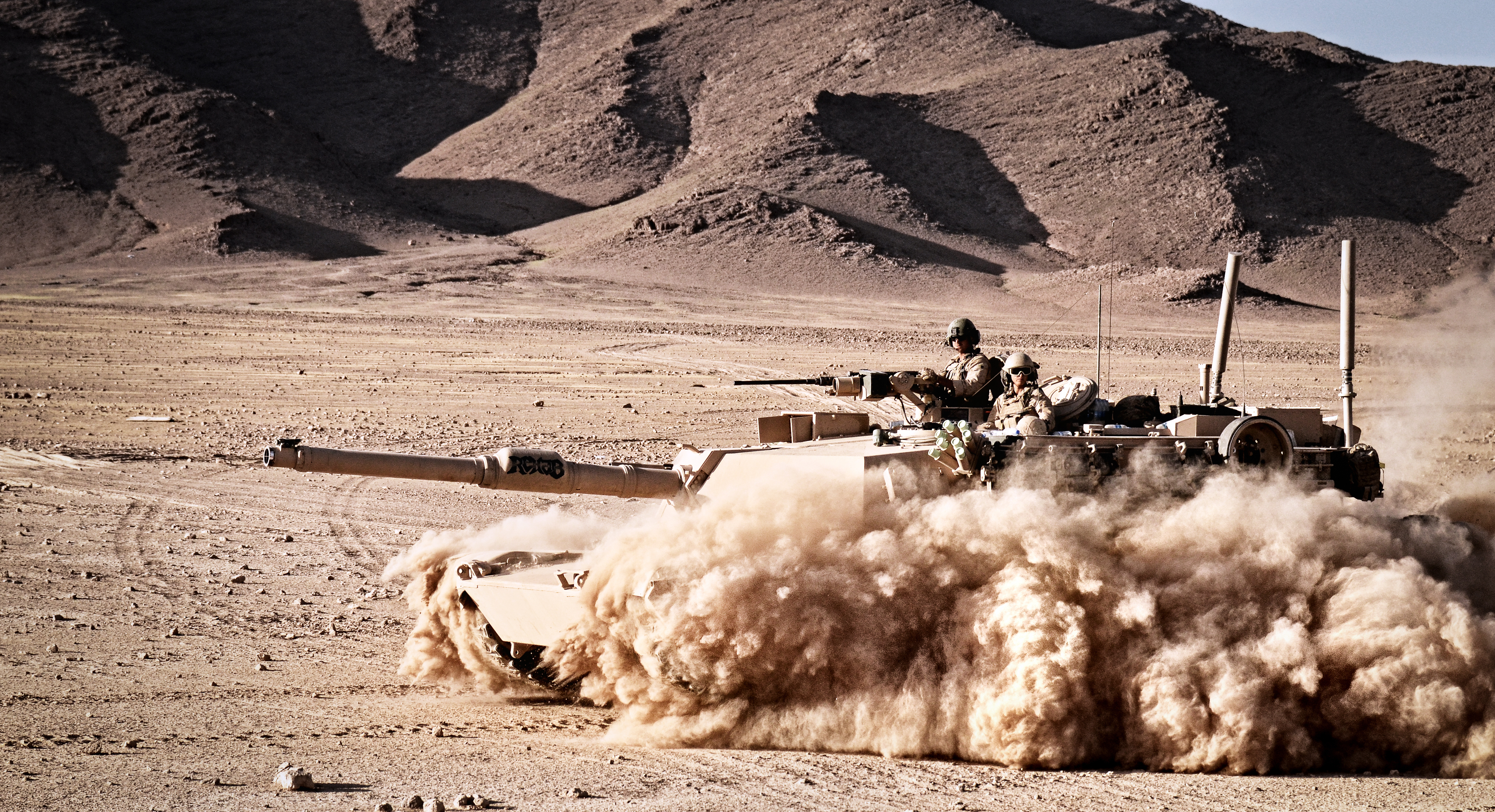 An M1A1 Abrams tank with Alpha Company, 1st Tank Battalion, Regimental Combat Team 6, patrols through the desert north of the Kajaki Dam, May 31. The Marines supported Operation Branding Iron. (U.S. Marine Corps photo by Cpl. Mark Stroud) To read more visit